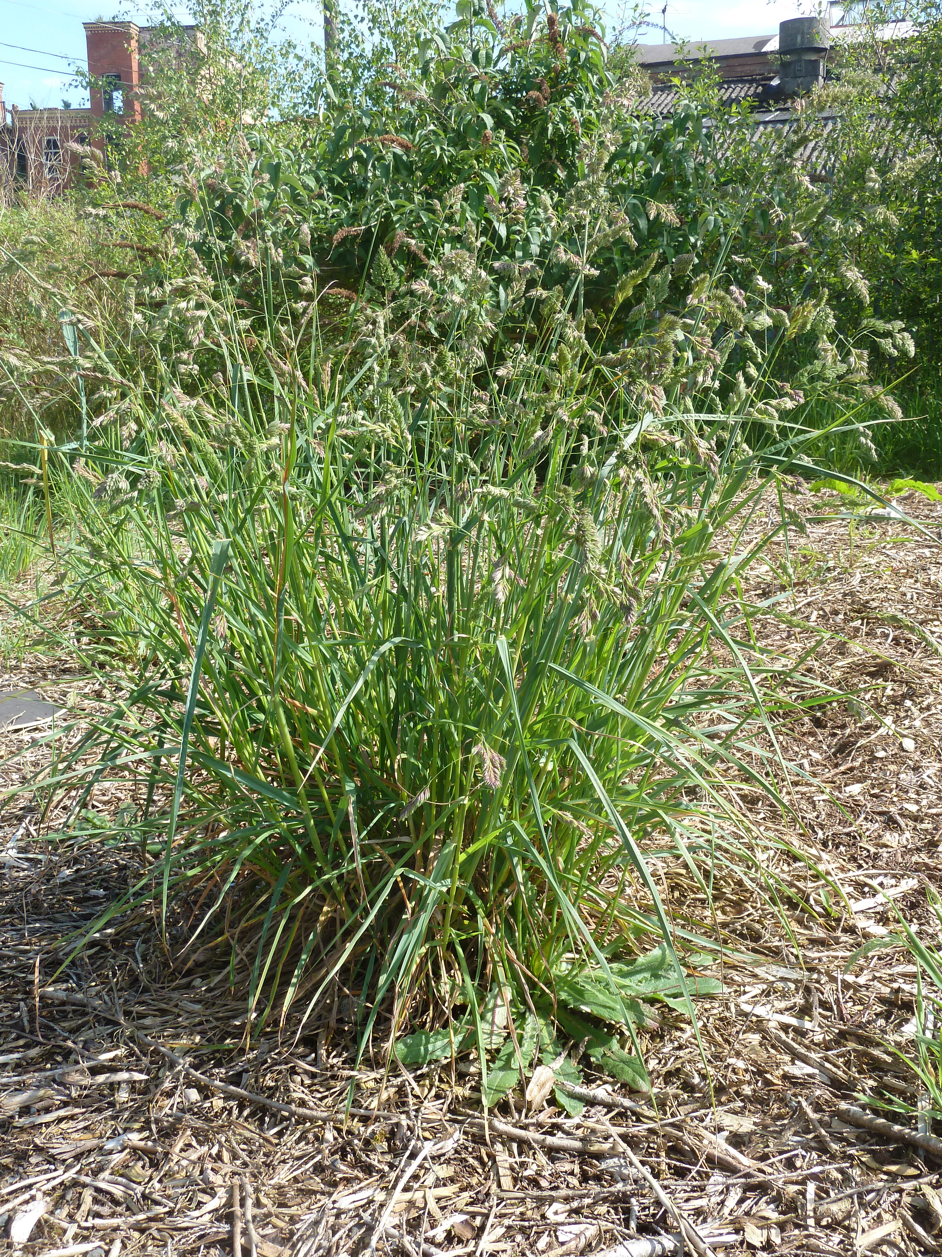 Dactylis glomerata Cocksfoot Hilden, Co. Antrim Ireland late May